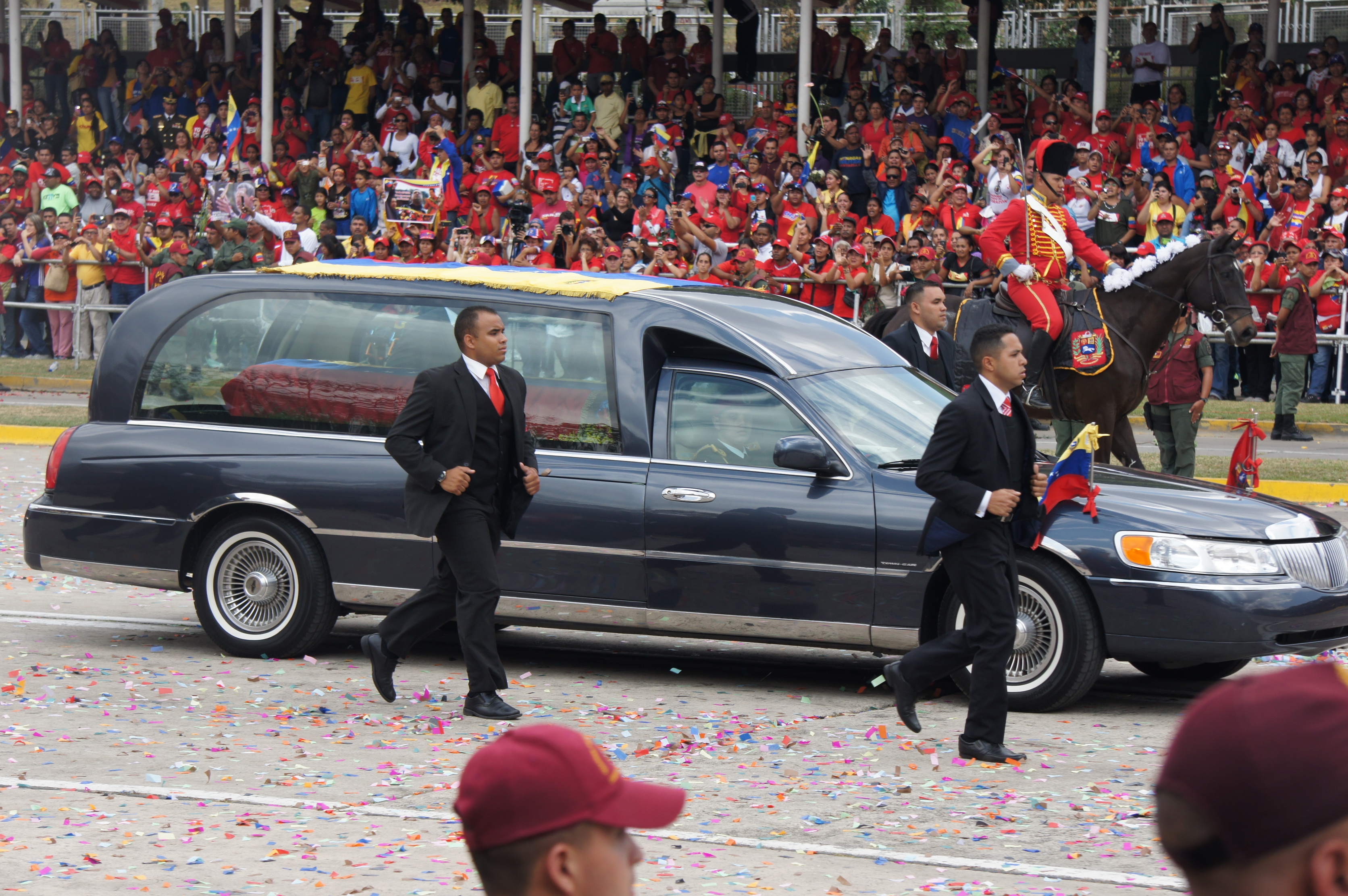 Funeral procession of Hugo Chávez.